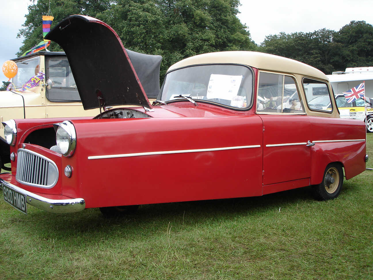 Bond Minicar 1959. Photographed by myself on 20 August 2006 at Tatton Park, Cheshire, UK. Owned by Andy Smith member of Bond Owners'Club